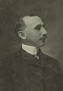 Image of Kentucky poet Madison Cawein, listed as 1905. NYPL Digital Gallery